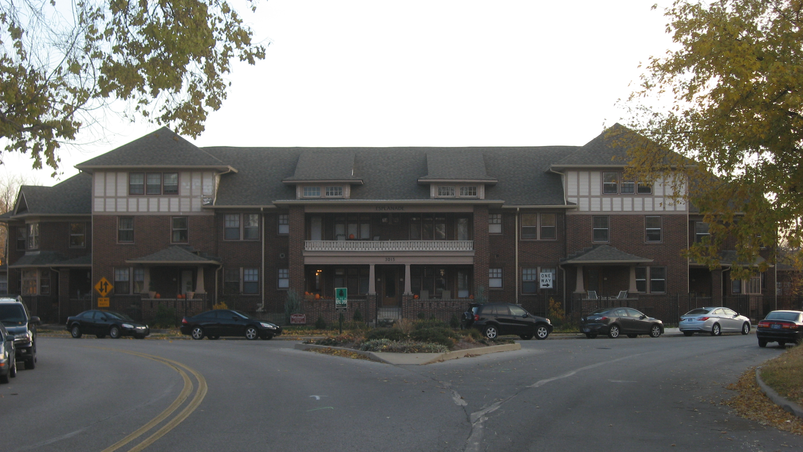 Front of the Esplanade Apartments, located at 3015 N. Pennsylvania Street in Indianapolis, Indiana, United States. Built in 1912, it is listed on the National Register of Historic Places, and it is part of a Register-listed historic district, the Meridian Park Historic District.